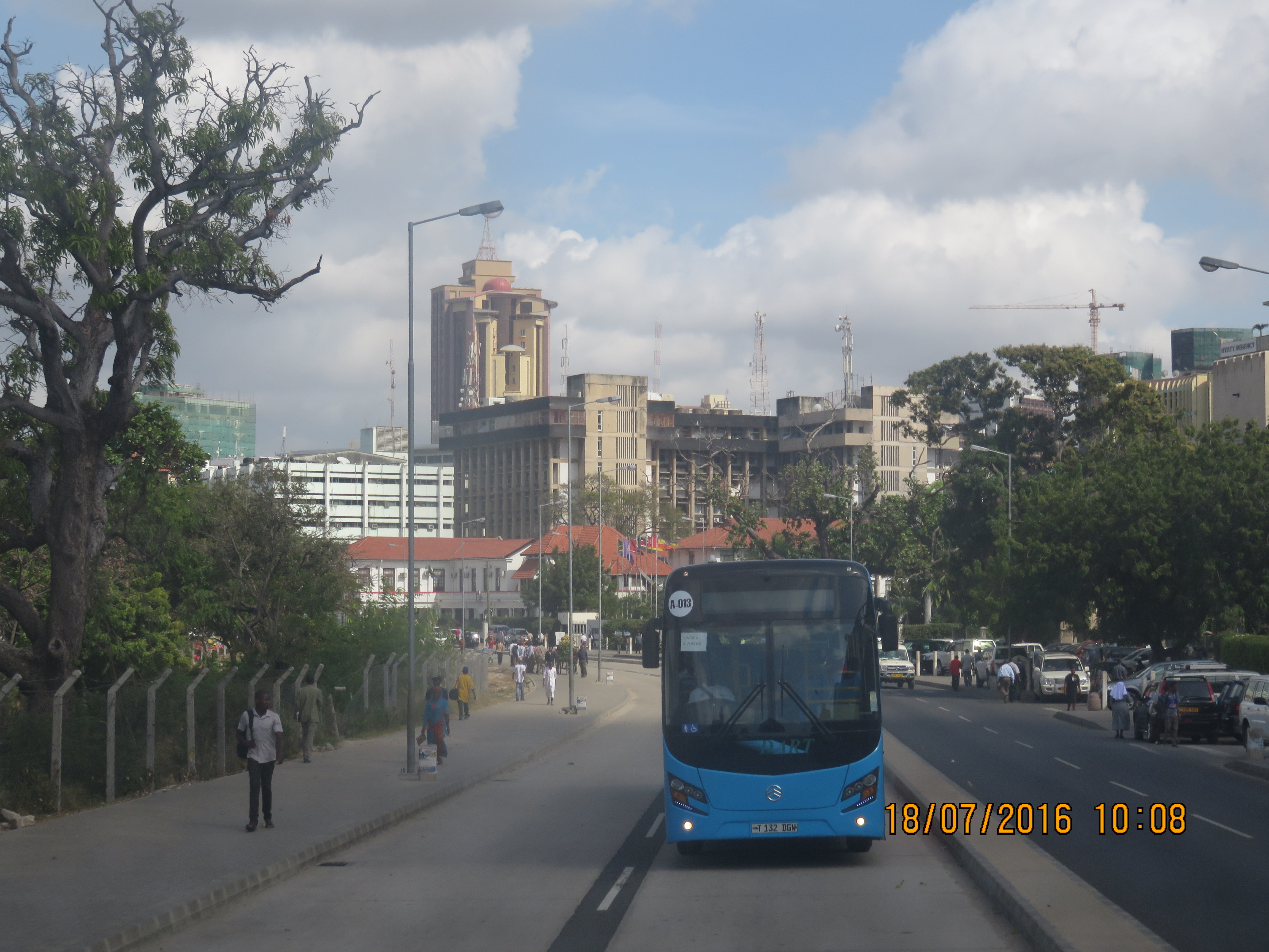 This is an image from Tanzania